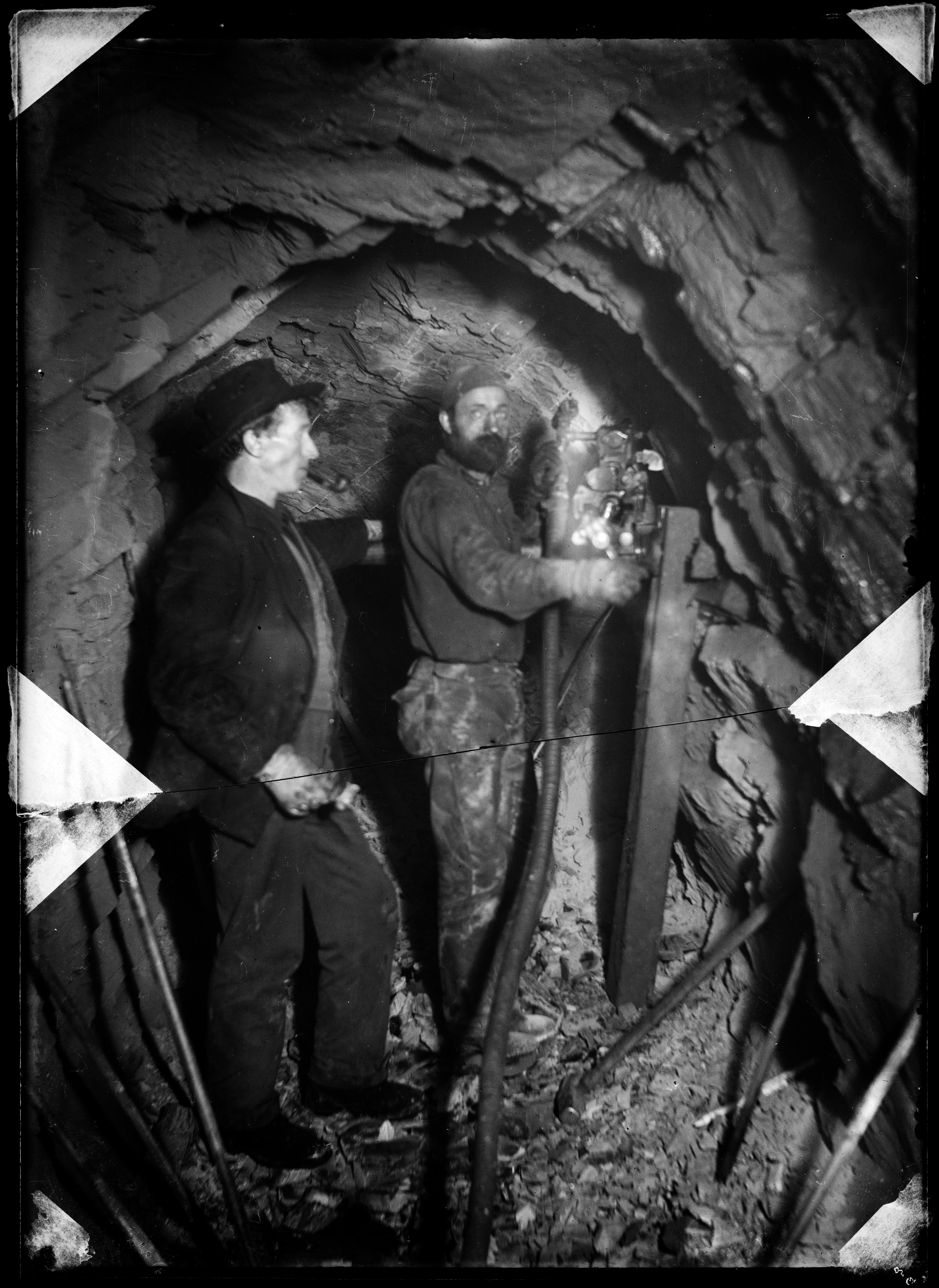 PHOTO NUMBER: 2329 DESCRIPTION: Two miners drilling inside the Nettie L. mine in Ferguson PHOTOGRAPHER: Ida Madeline Gunterman DATE: 1902 SUBJECTS: Lardeau Region, Ferguson, nettie L. mine More information on our historical photograph collection